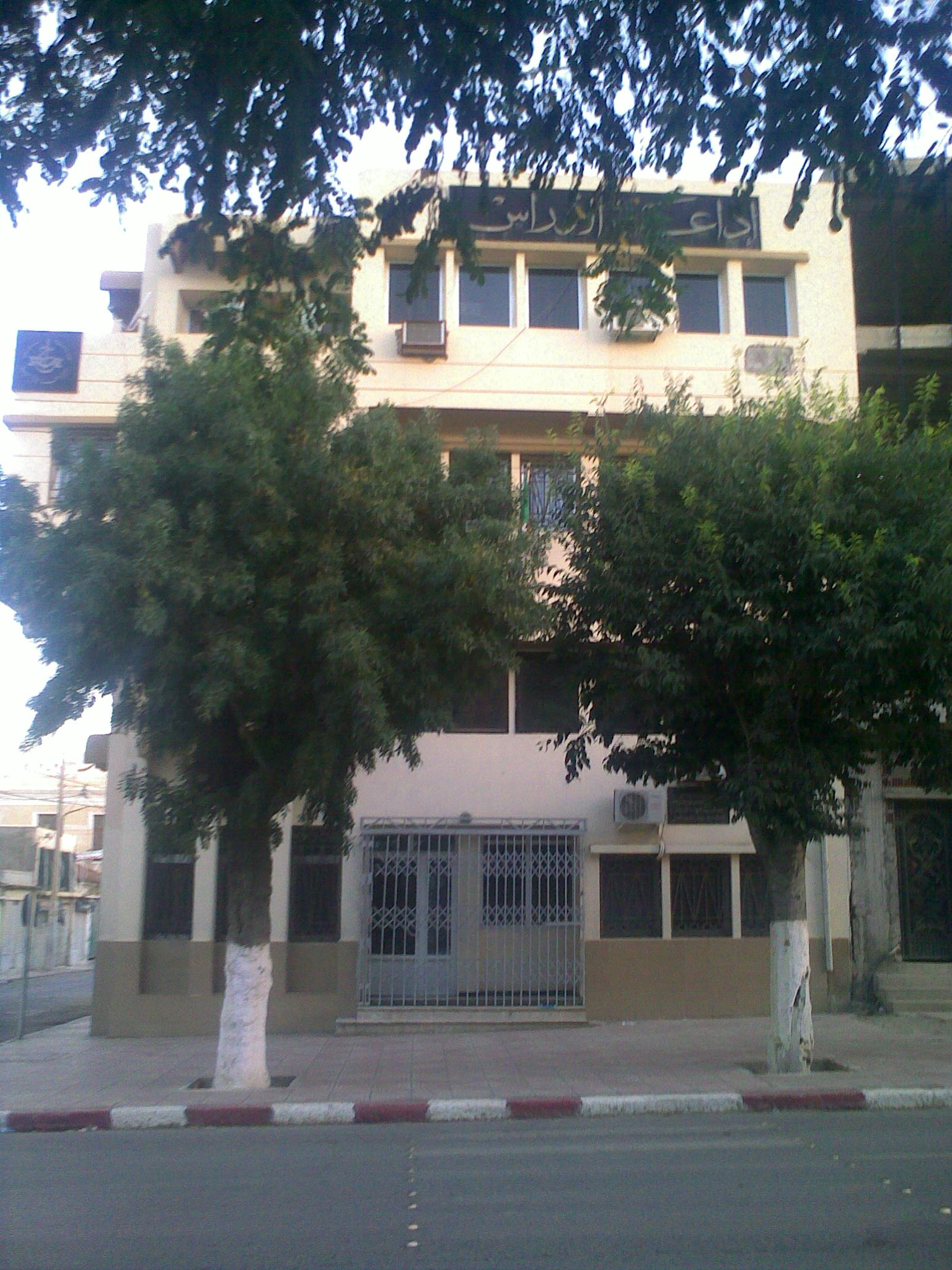 Photo of the Radio Aures of Batna city (Algeria)